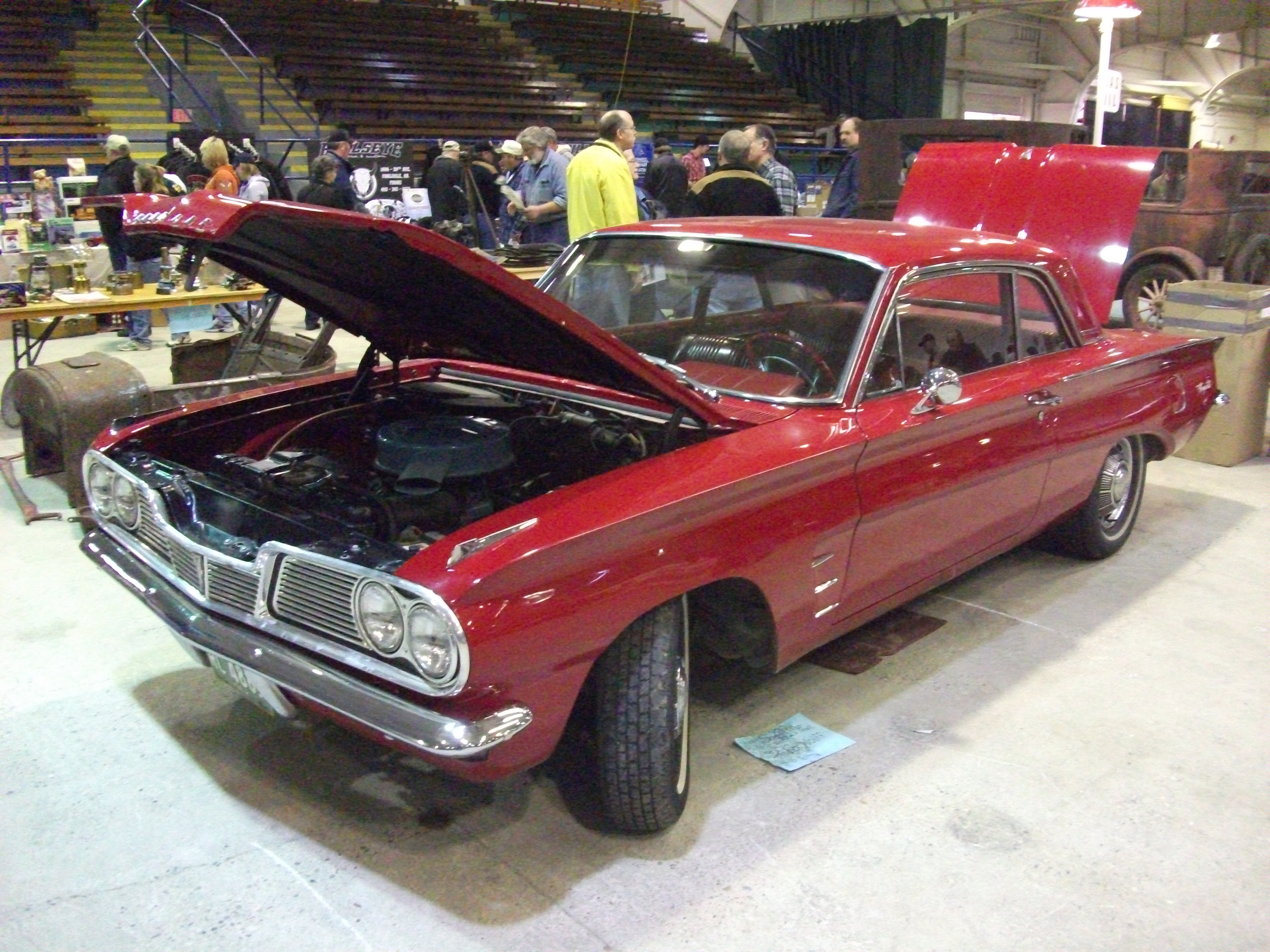 Pontiac LeMans Tempest with a slant four cylinder engine (half a 389cid V8), rope drive and a rear mounted transaxle.